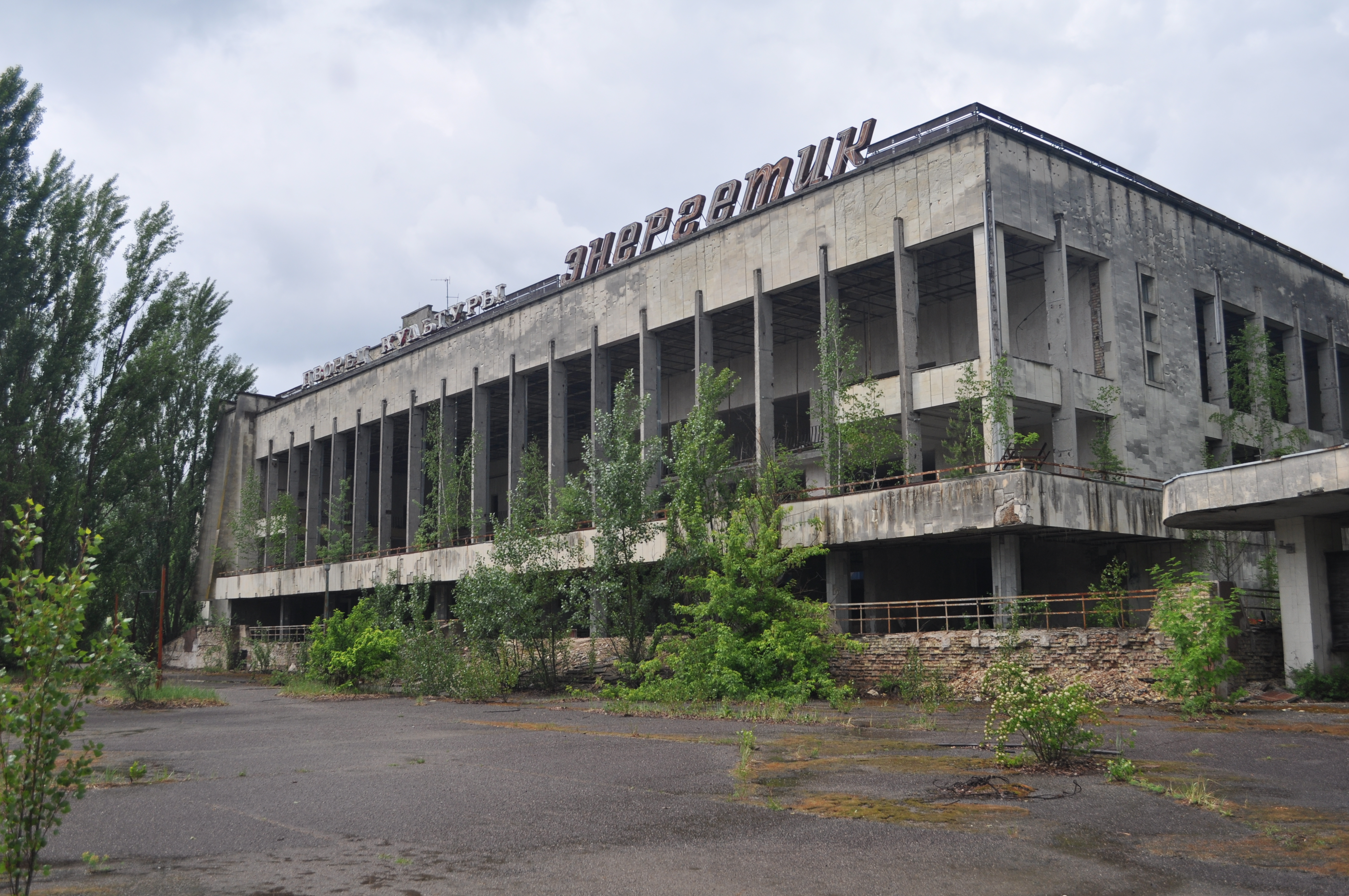 This photo was taken during 2013 Ukrainian Wikiexpedition to the Chernobyl Exclusion Zone set up by Wikimedia Ukraine and funded by The Wikimedia Foundation. You can see all photographs in category Category:Wikiexpedition to Chernobyl Exclusion Zone 2013.